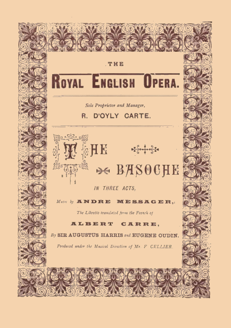 Scan of front cover of Victorian theatre programme, dated 1891, for Richard D'Oyly Carte's production of La Basoche. Public domain.